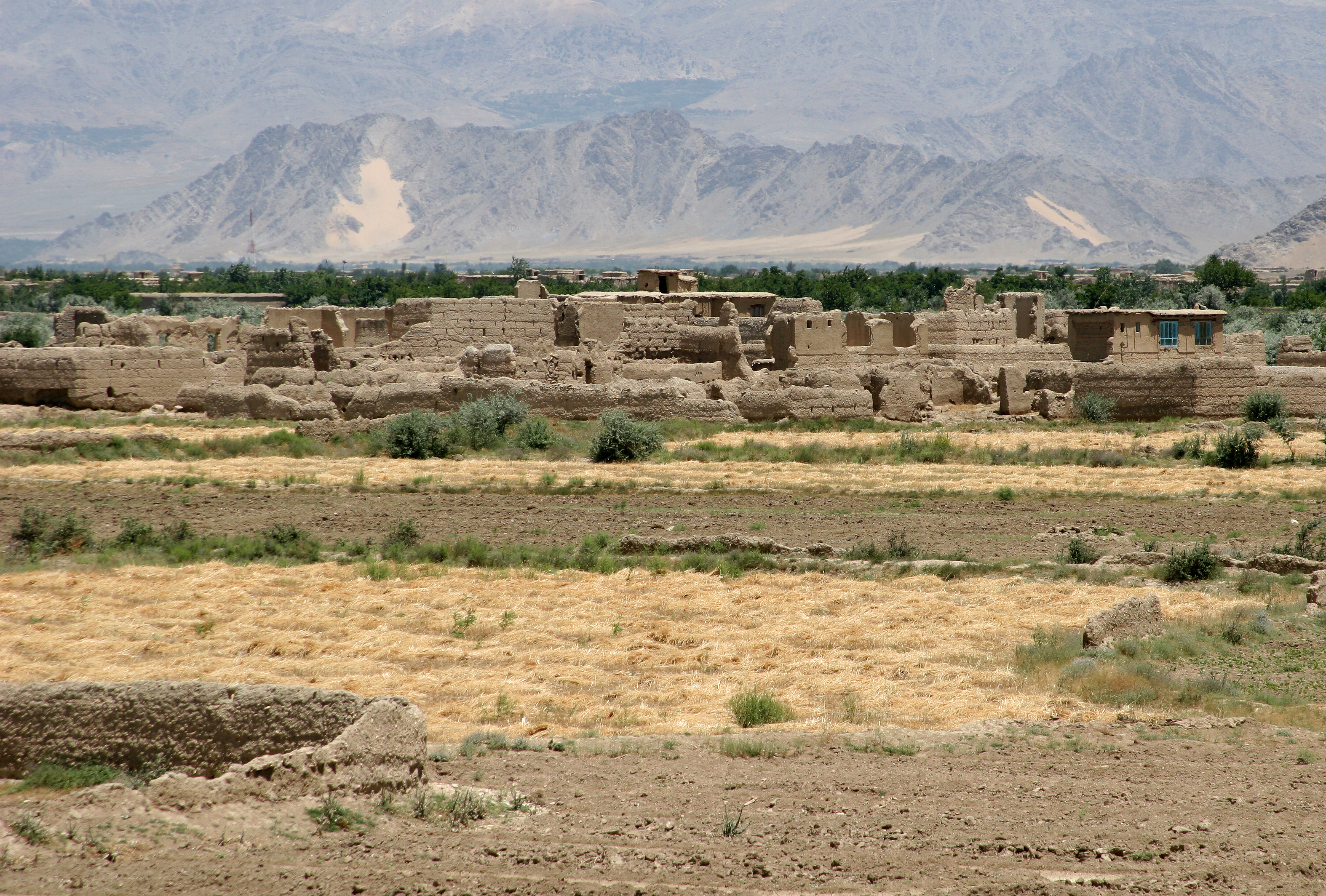 A photograph of mud walls and buildings around the Parwan province in Afghanistan.